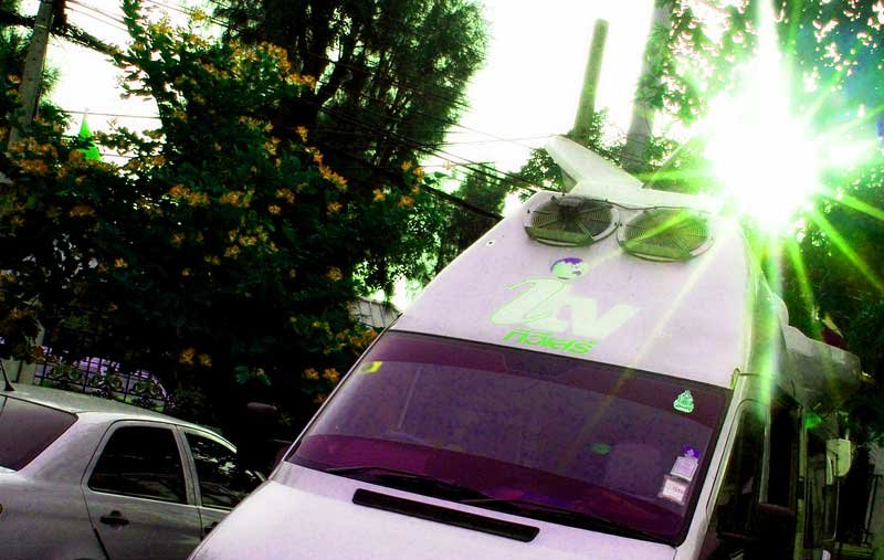 The first sunrise of the year 2007 in Bangkok on the day following the New Year bombings. This image taken from the Rajavithee Hospital where most of the victims of the blasts were treated. Provided by Manik Sethisuwan 21:32, 3 February 2007 (UTC), The Sethisuwan Group (January 2007).